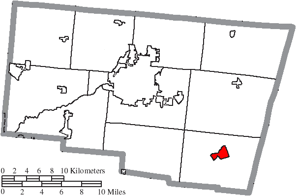 Map of the municipal and township boundaries of Clark County, Ohio, United States, as of the 2000 census, with the location of the village of South Charleston highlighted. Township borders are shown only in unincorporated areas in order to differentiate incorporated and unincorporated areas more clearly.